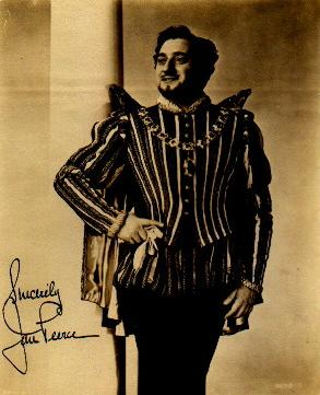 Jan Peerce as the Duke in Verdi's opera Rigoletto. The photo has no copyright markings on it as can be seen in the original upload.